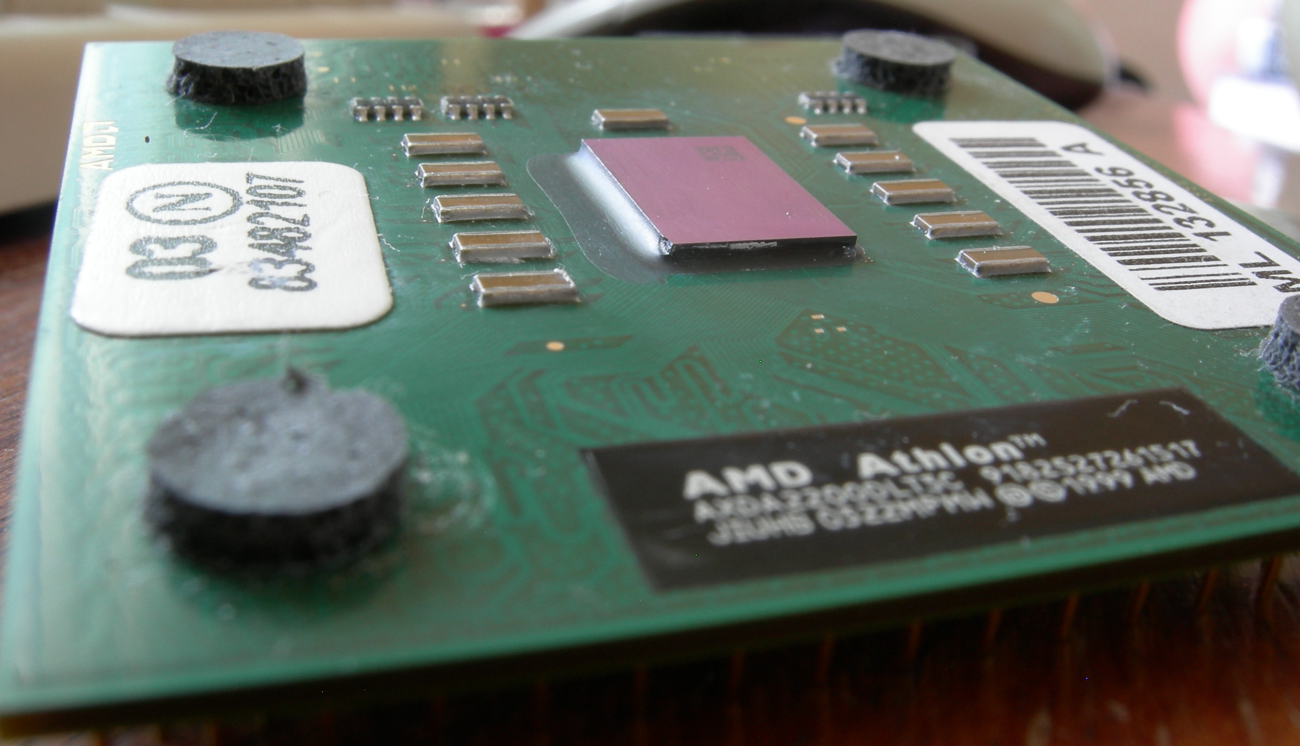 AMD Athlon XP 2200+ Thoroughbred-B processor with broken core